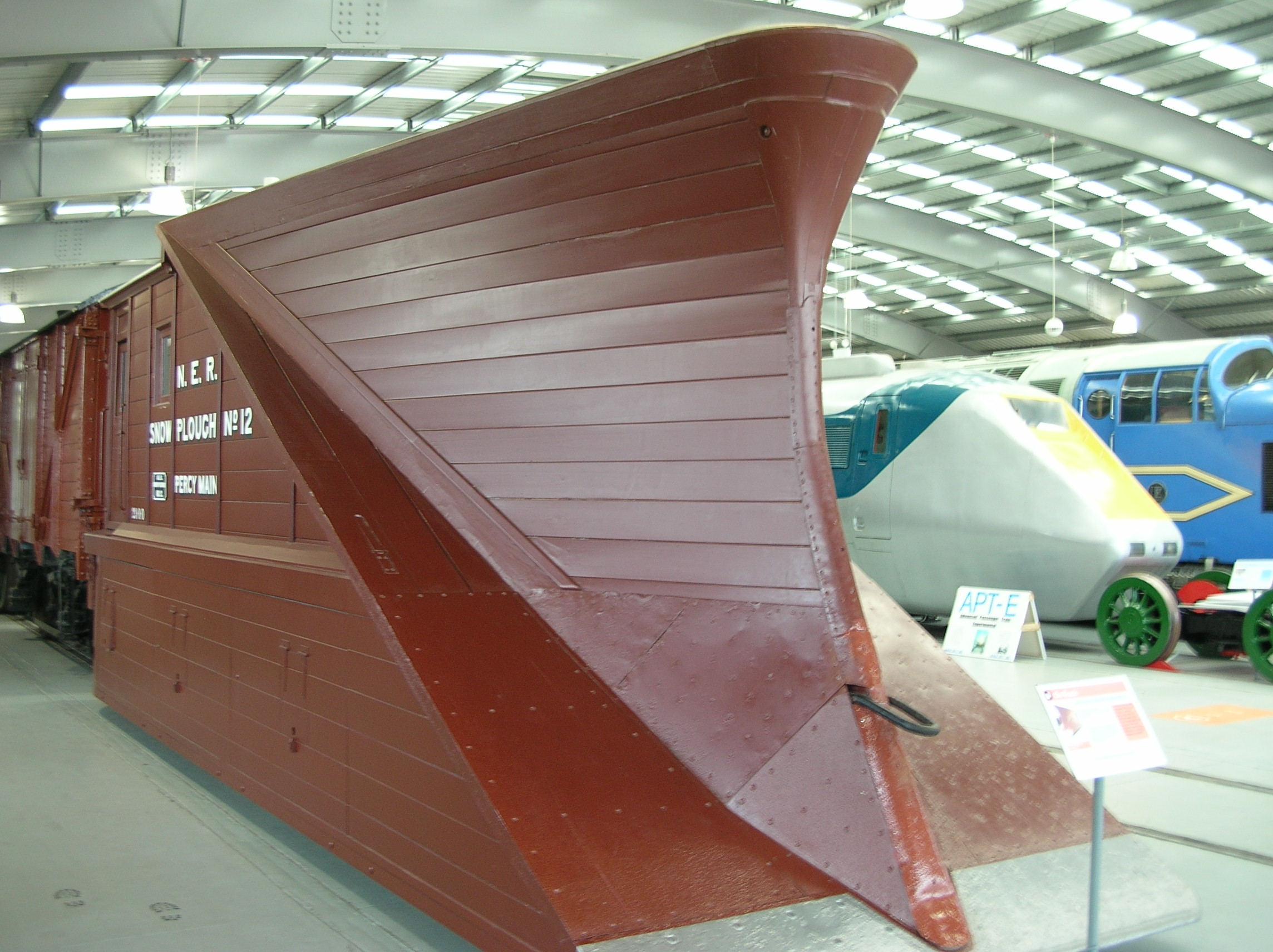 Snow plough Train